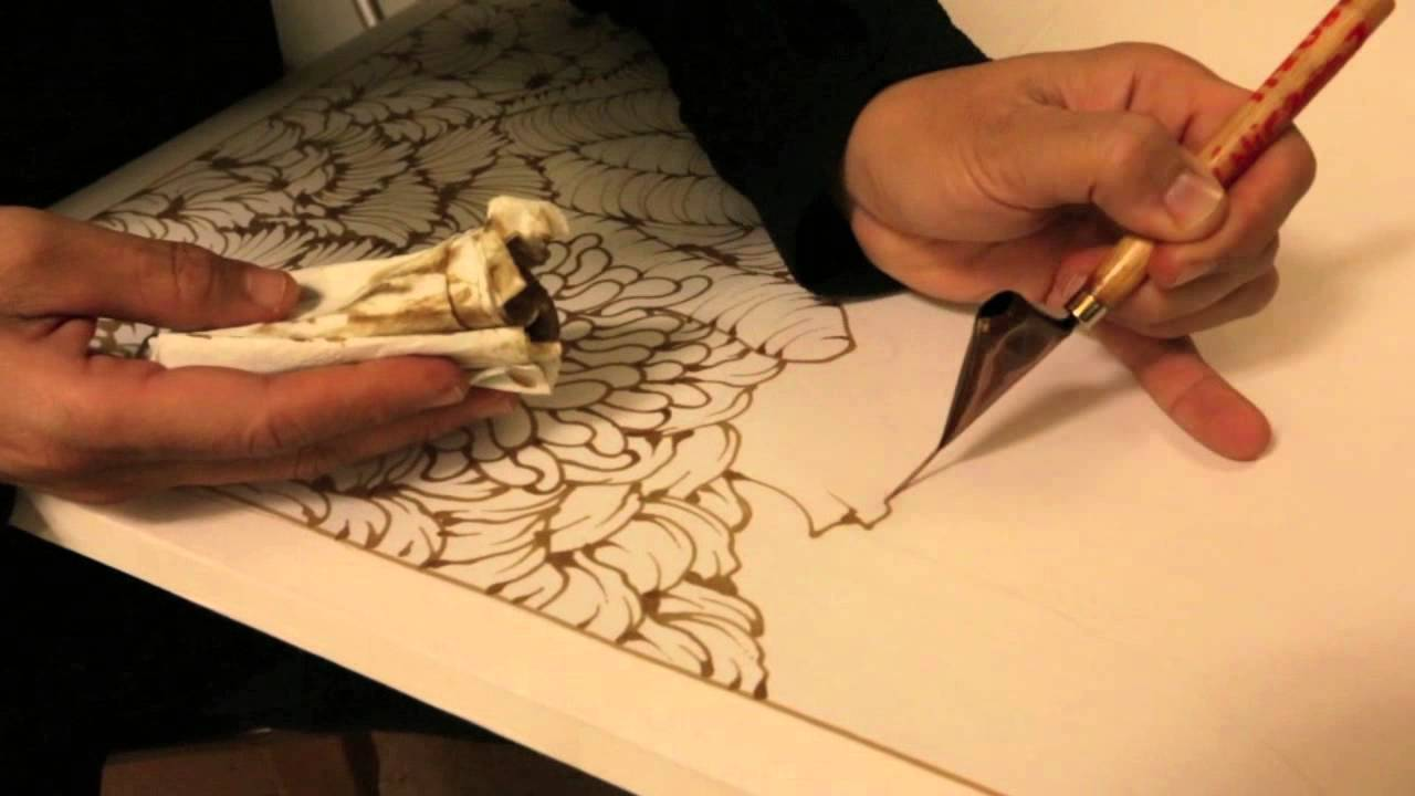 this picture describe about a person that is working on a batik